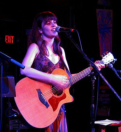 Emily Grove on stage at The Saint, Asbury Park, NJ 05202011